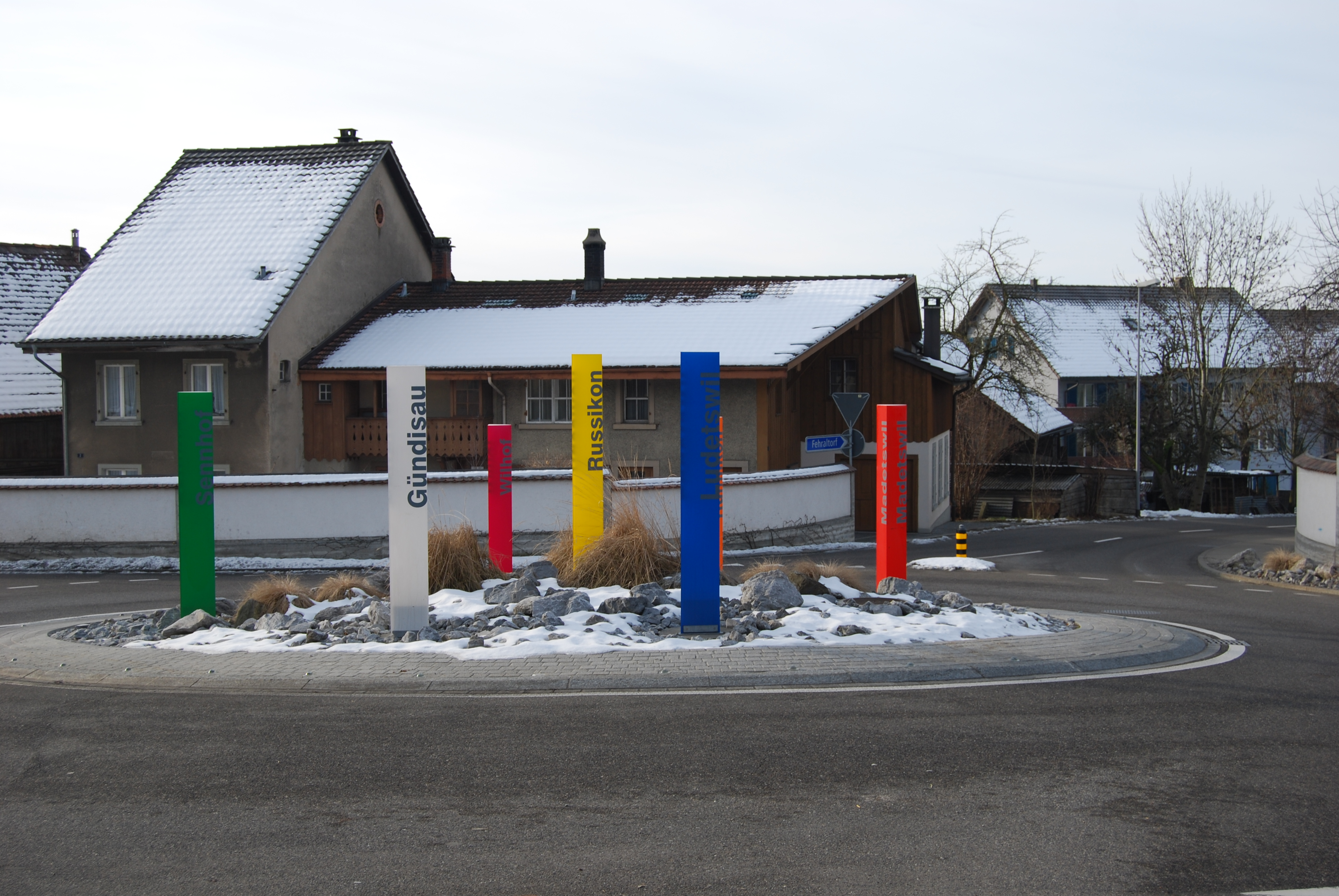 Roundabout at Russikon, canton of Zürich, SwitzerlandEsperanto: Trafikcirklo en Russikon, Kantono Zuriko, Svislando